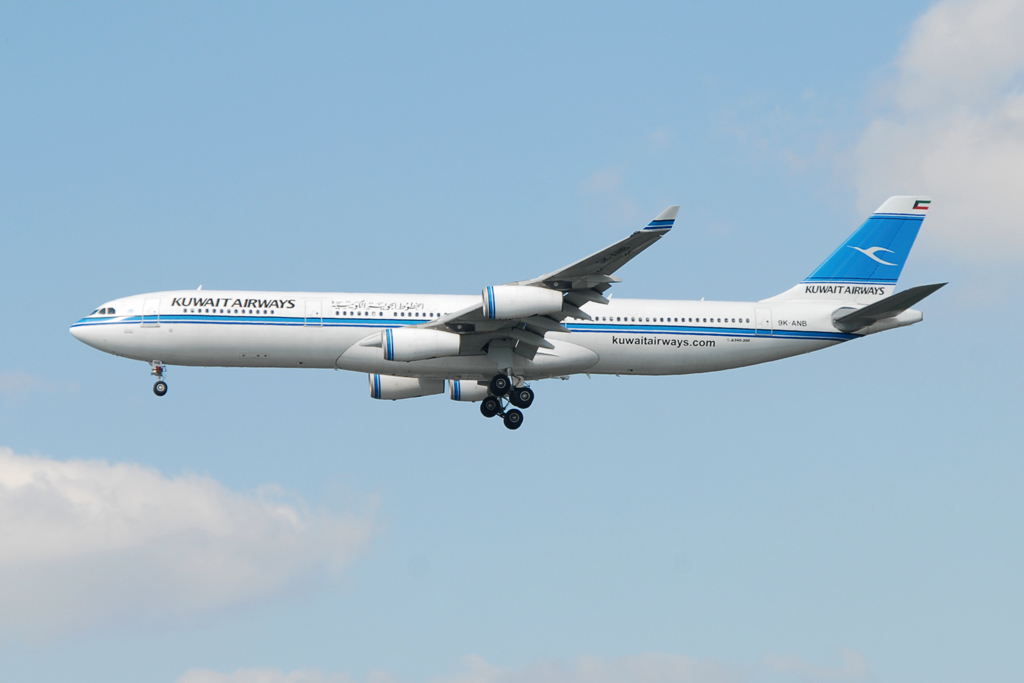 9K-ANB Kuwait Airways Airbus A340-313 msn 090 seen on short finals for 27L at London Heathrow (LHR/EGLL).